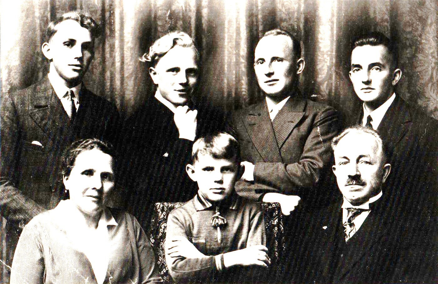 Franz Klingler, his wife Ida and sons about 1928